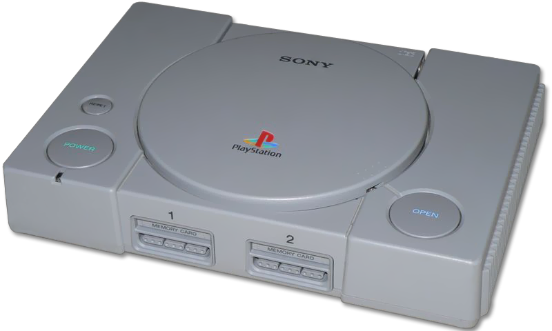 Transparent background version of Image:PlayStationConsole.jpg.